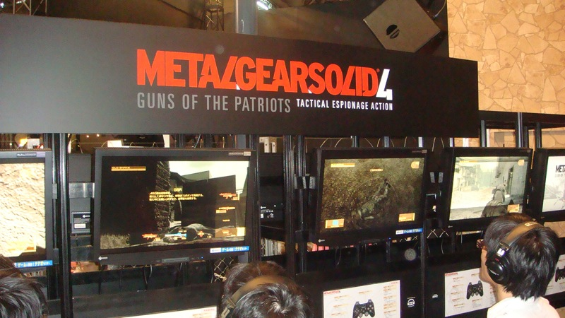 Metal Gear Solid 4: Guns of the Patriots stand @ Tokyo Game Show.